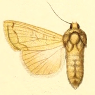 Image from Plate 12 of Die Gross-Schmetterlinge der Erde (The Macrolepidoptera of the World) Vol. 3